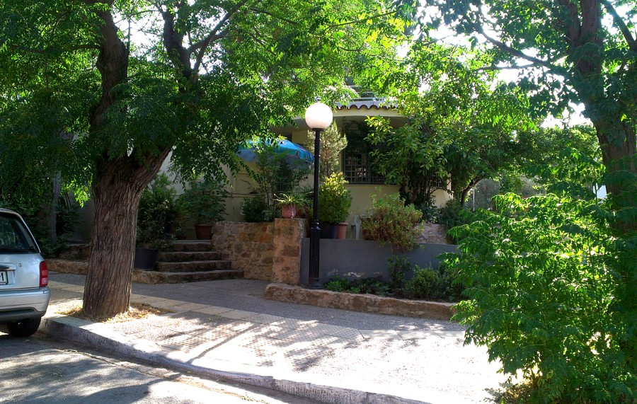 filothei